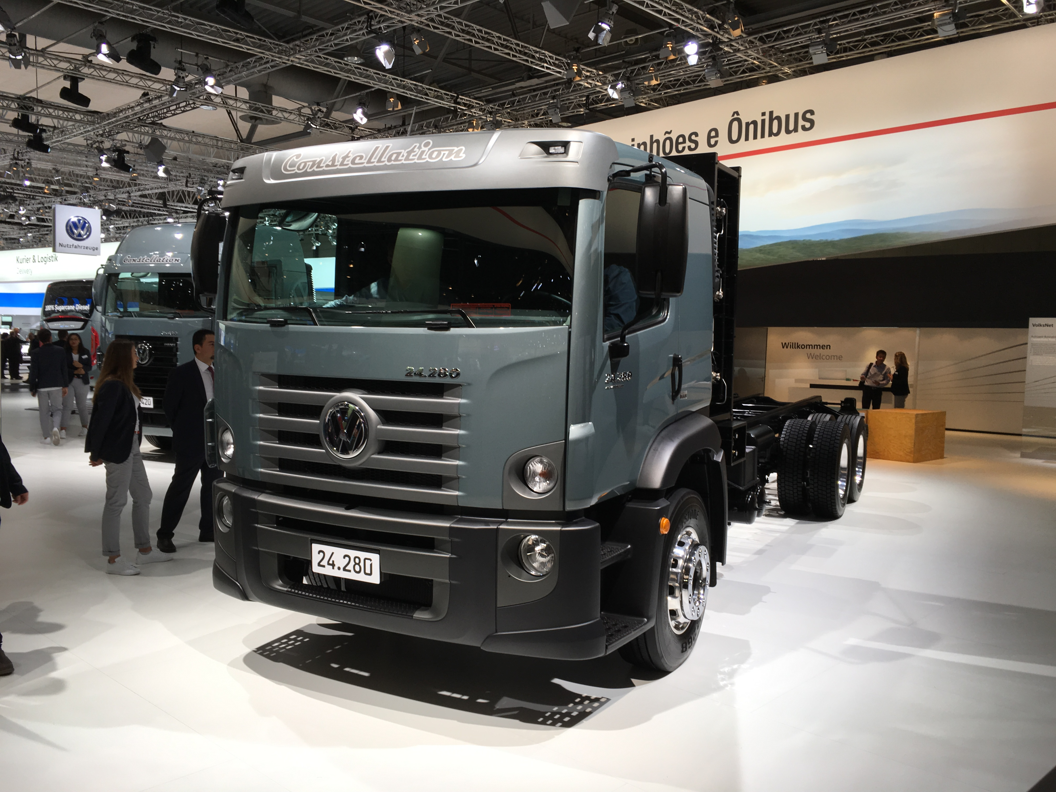 IAA 2016 at Hannover